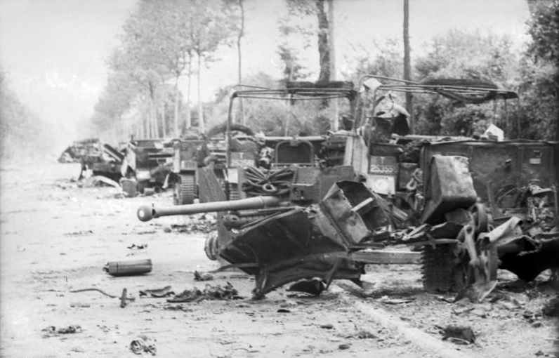 The gun is QF 6-pdr AT-gun, the tractors are most probably Loyd Carriers